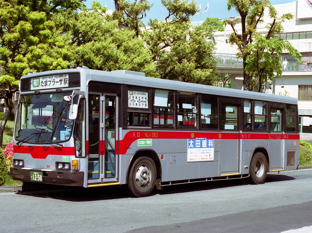 Tokyu bus Isuzu Cubic (U-LV318N,3doors)